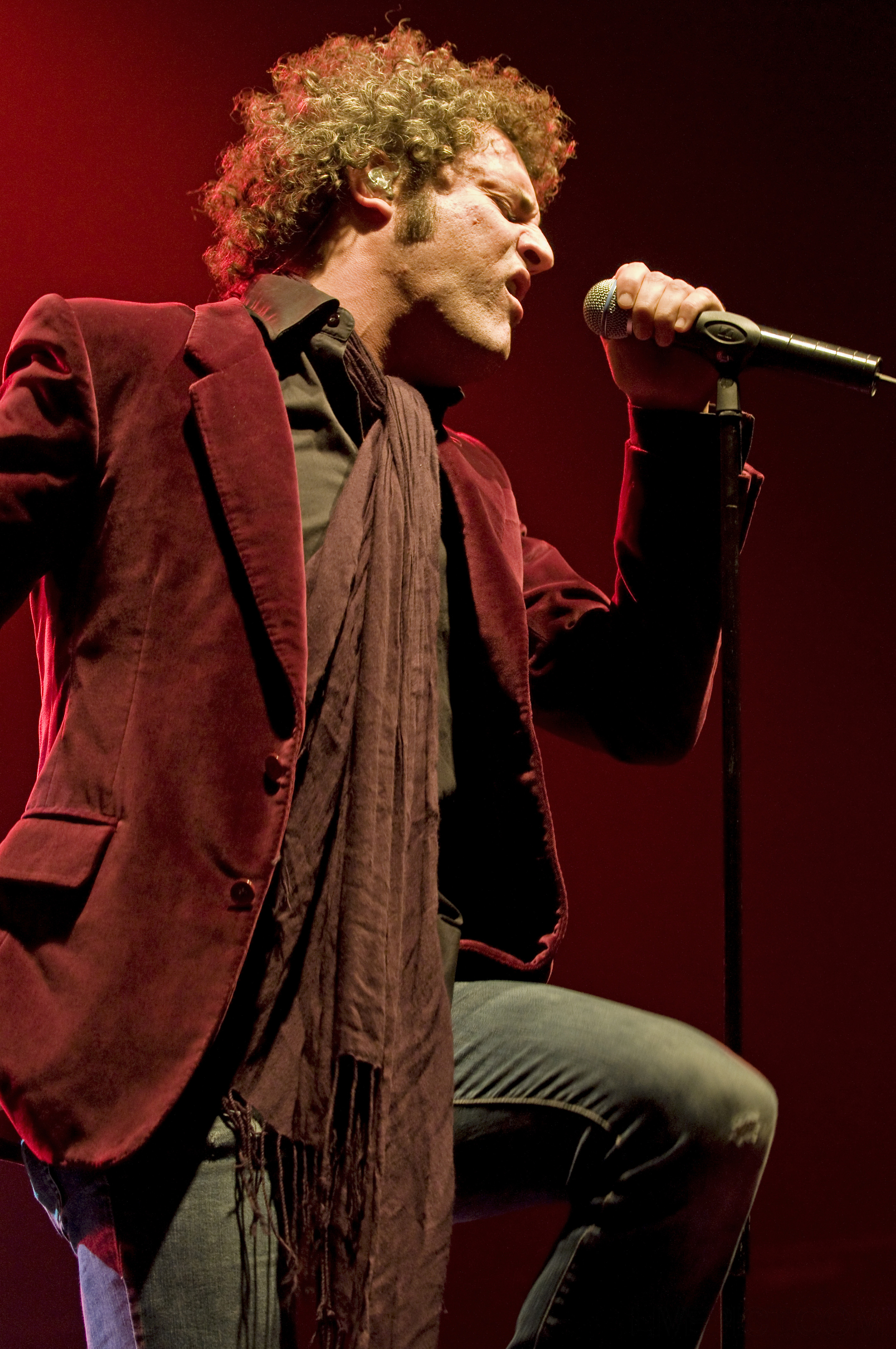 M-Clan